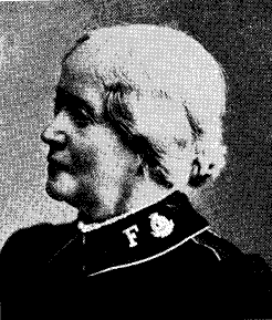 Hanna Ouchterlony, active person in The Salvation Army in Sweden.